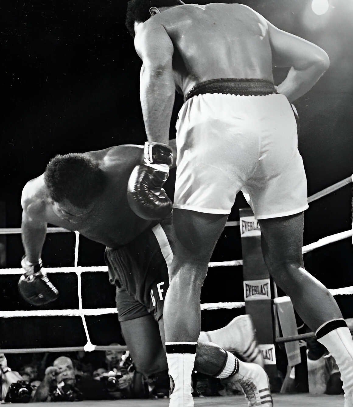 George Foreman, defeated.